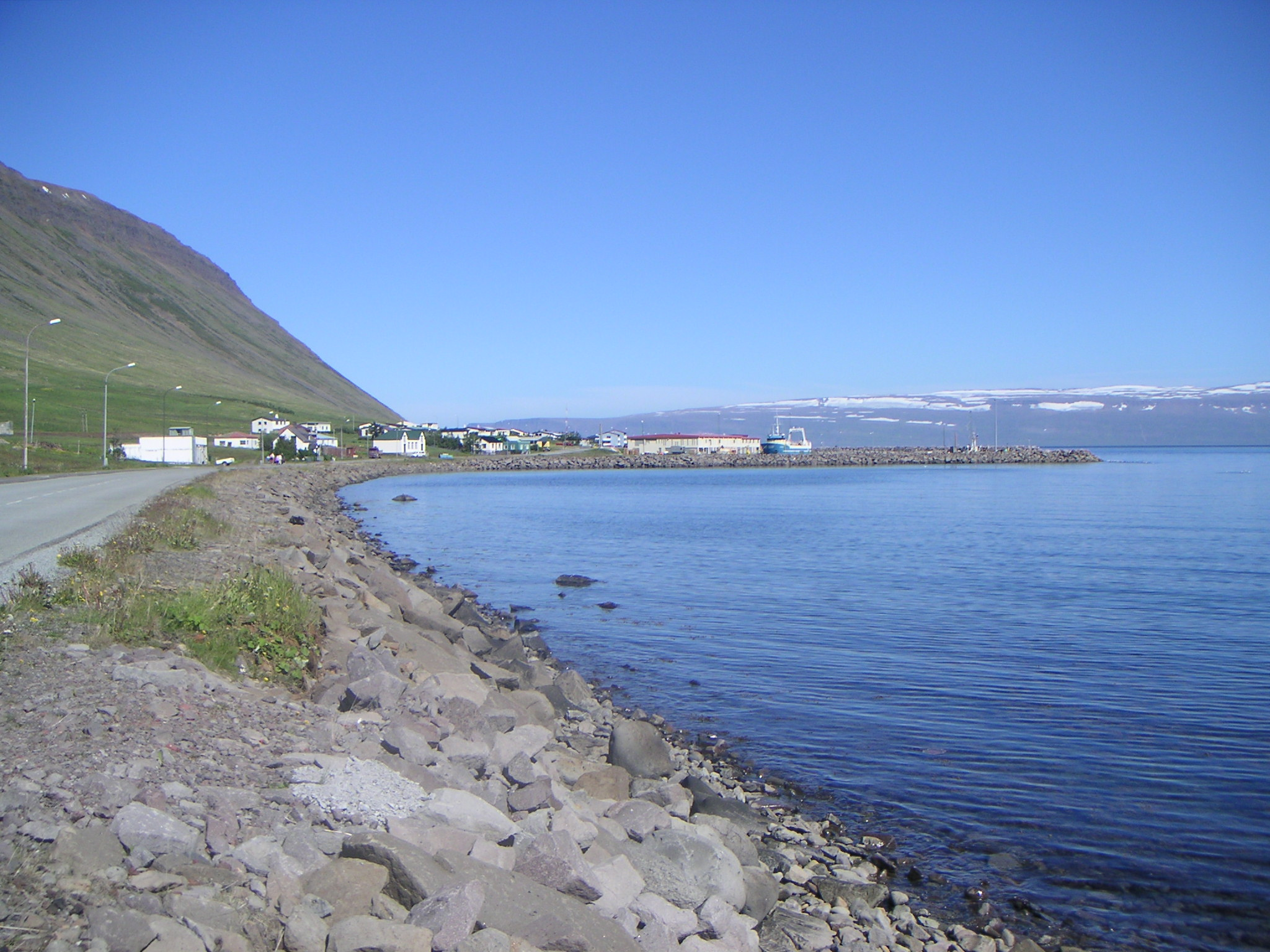 Beach, Súðavík, West Iceland Photo by Svanhildur Bragadóttir, Júlí 2005